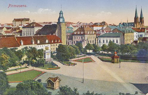 Pirmasens um 1910 old Postcard. The old Postcard shows Exerzier place, Johannes (Calvin) church (left), Sankt Pirminius church in Pirmasens, Germany.